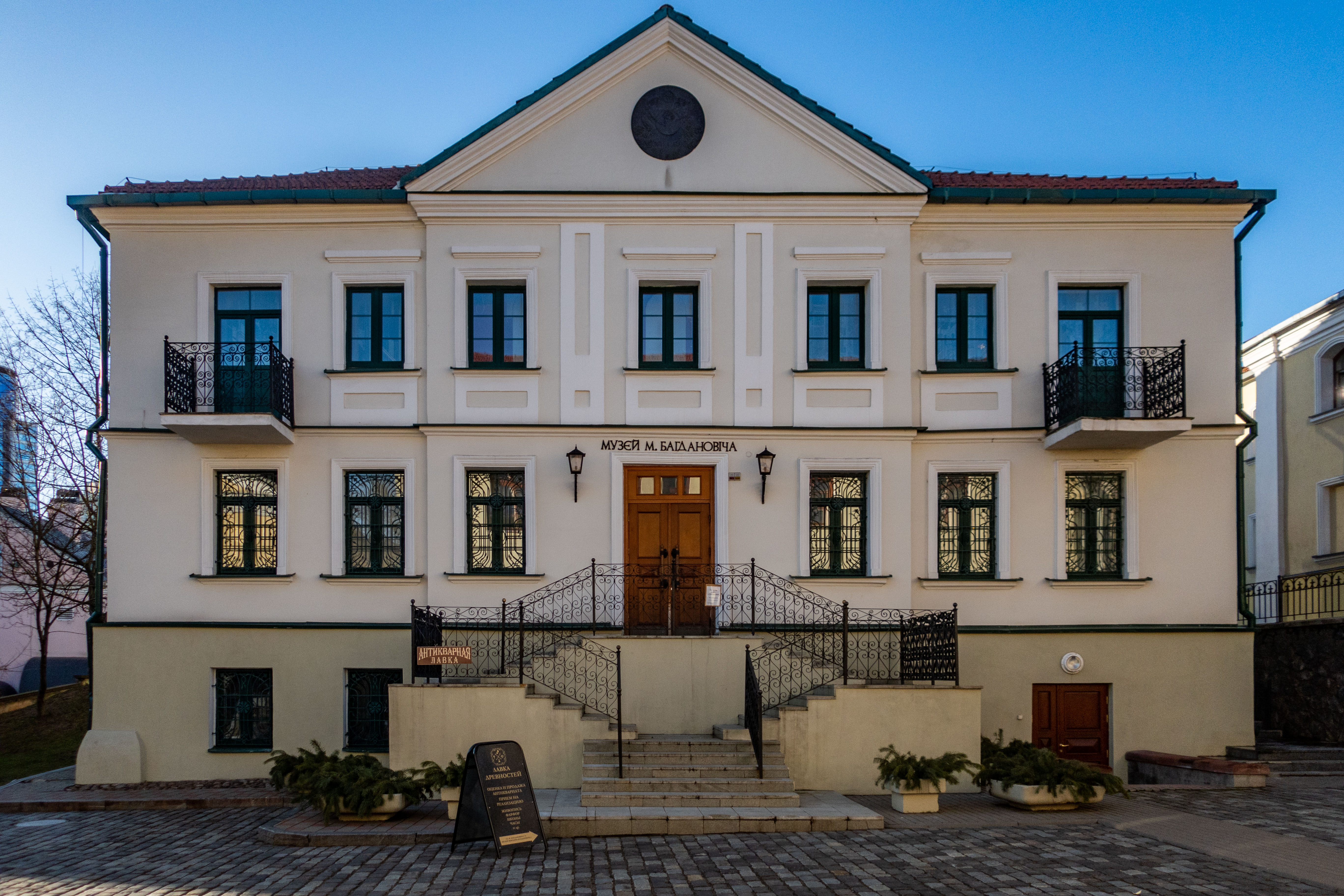 Museum of Maksim Bahdanovič, Belarusian poet. Trajeckaje pradmiescie (Trinity suburb). Minsk, Belarus